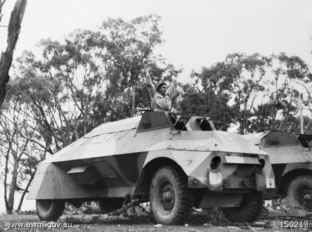 AWM Caption: Puckapunyal Victoria. June 1942. The driver of an Australian-built Light Armoured Car (Rover) gives the `Start-up' signal before commencing manoeuvres.